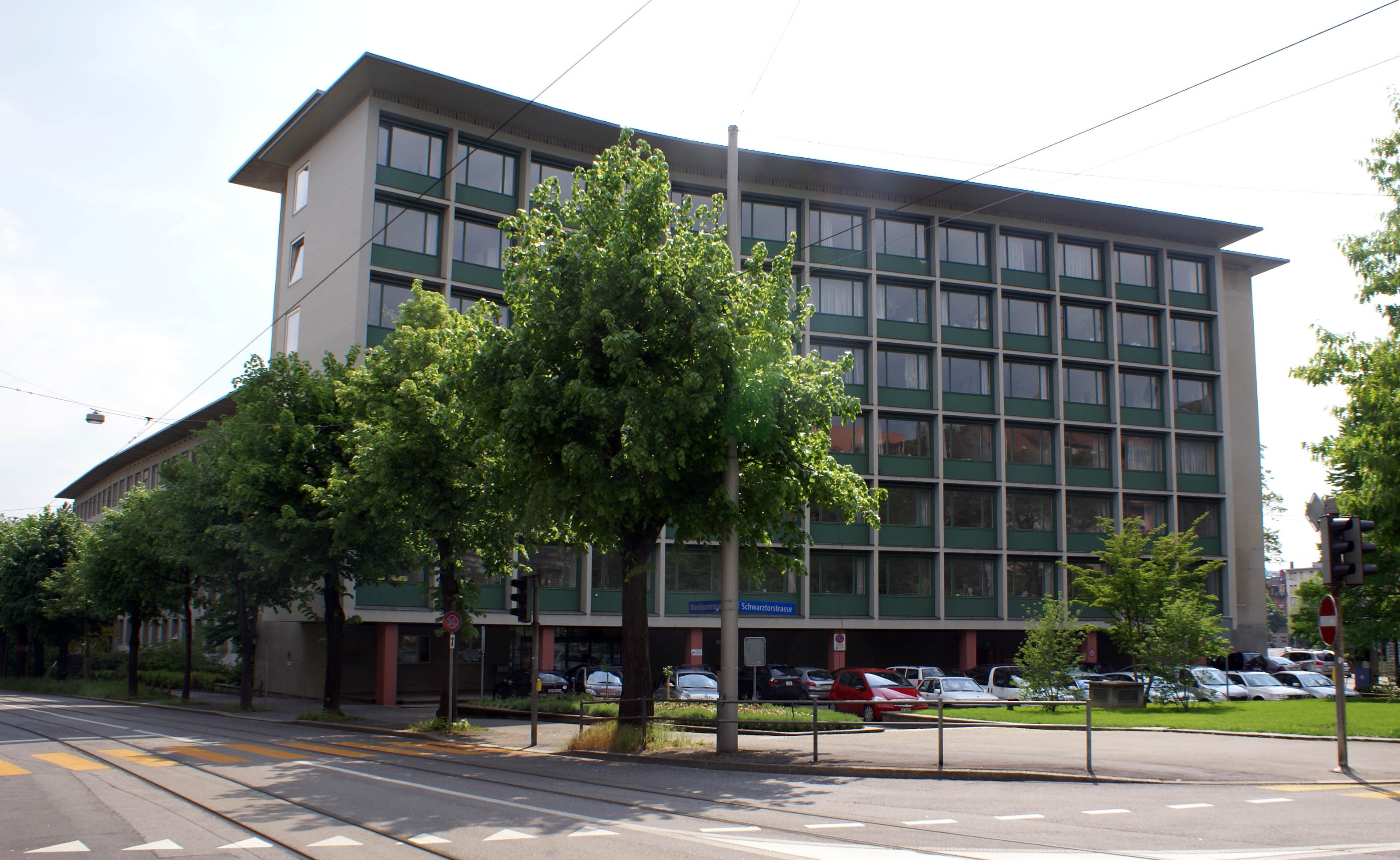 Headquarters of the Federal Customs Administration in Berne, Switzerland.